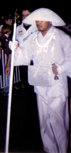 Hakushi at a WWF event in 1995